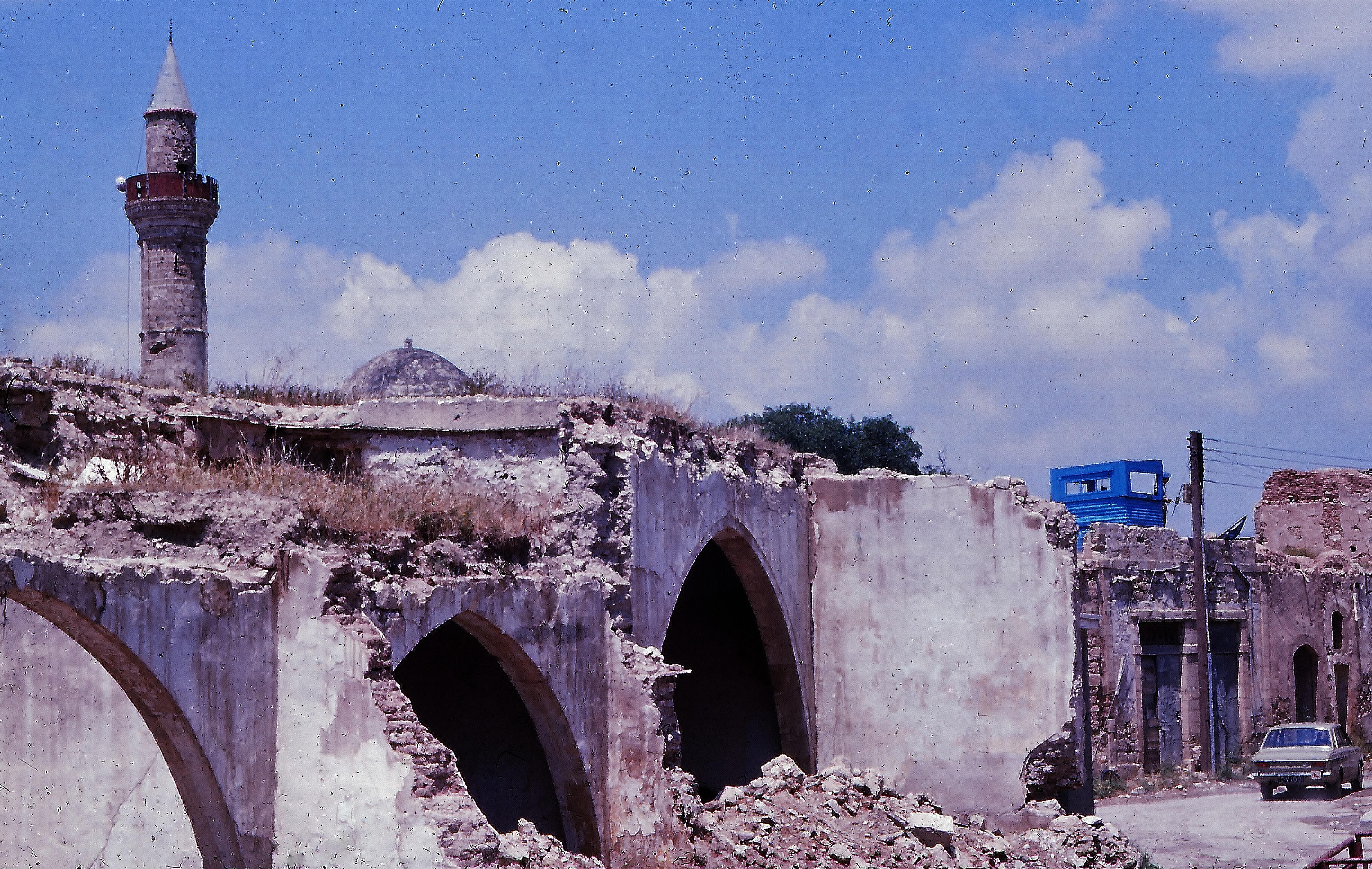 Cyprus has seen significant religious communal violence between Christians and Muslims.